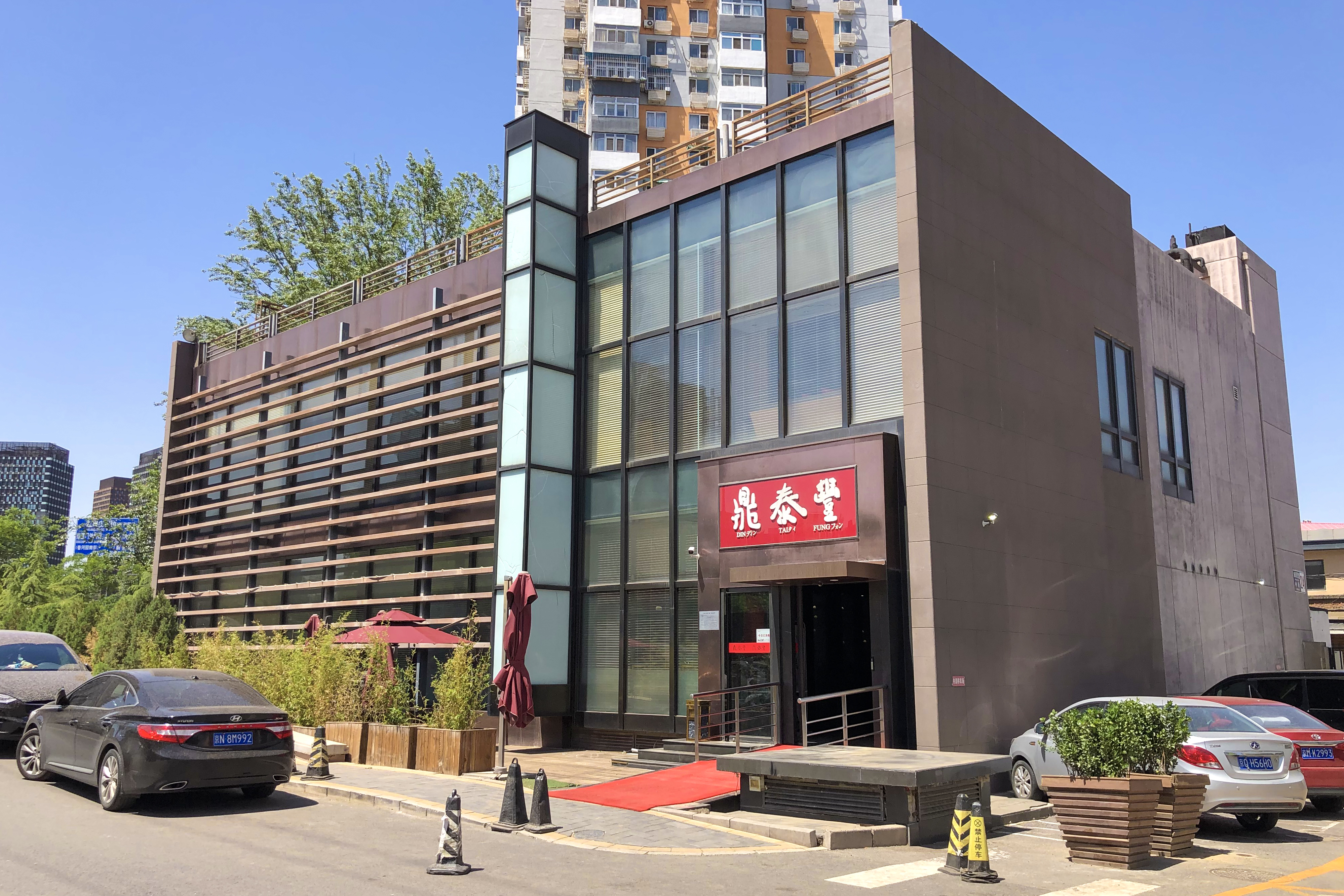 This is the first Din Tai Fung restaurant in Beijing, opened in 2004.